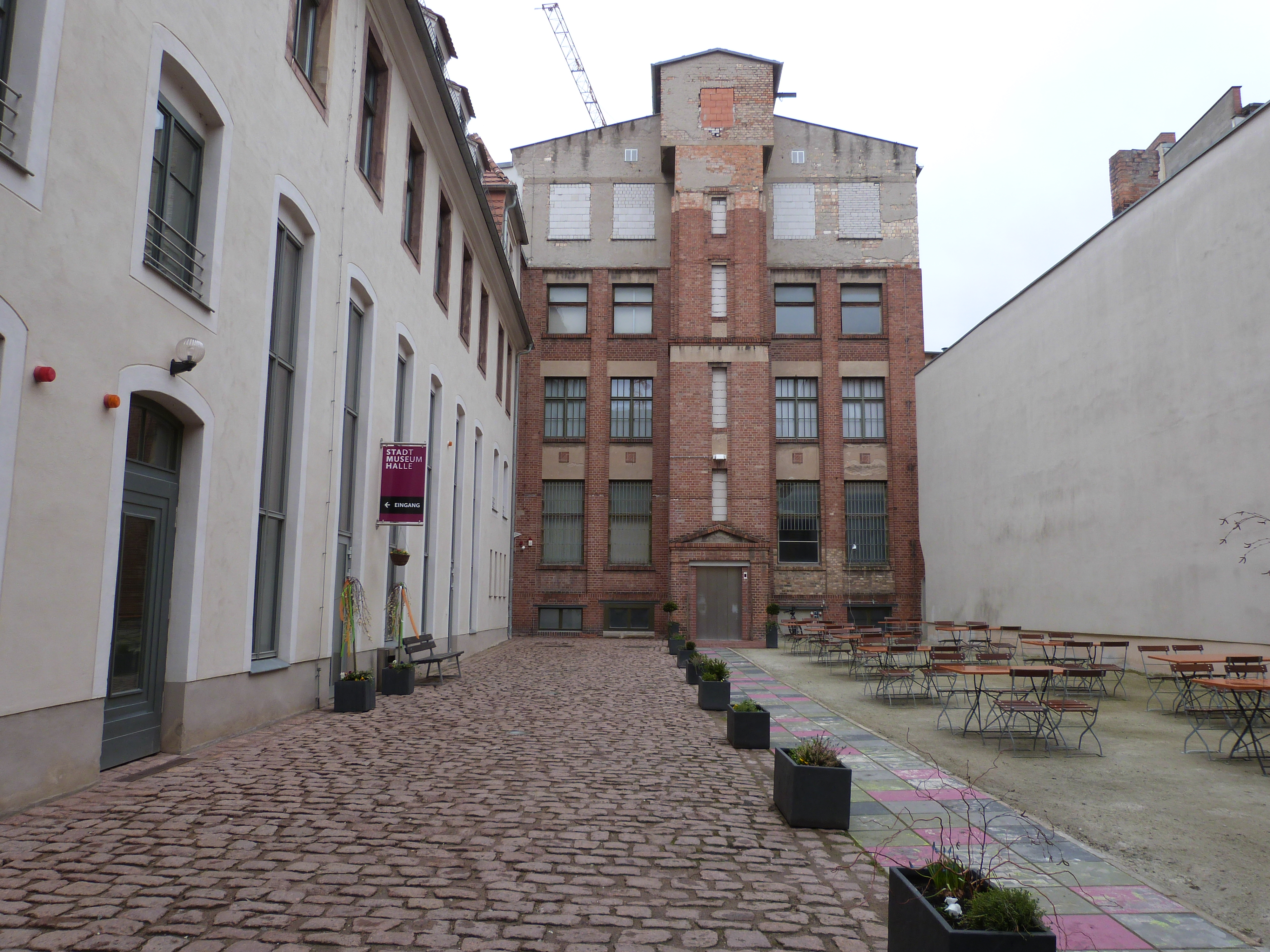 Courtyard of the city museum Christian-Wolff-Haus, Halle (Saale)